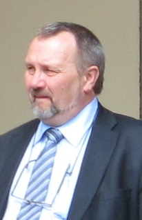 Pavel Kováčik, Member of the Parliament of the Czech Republic